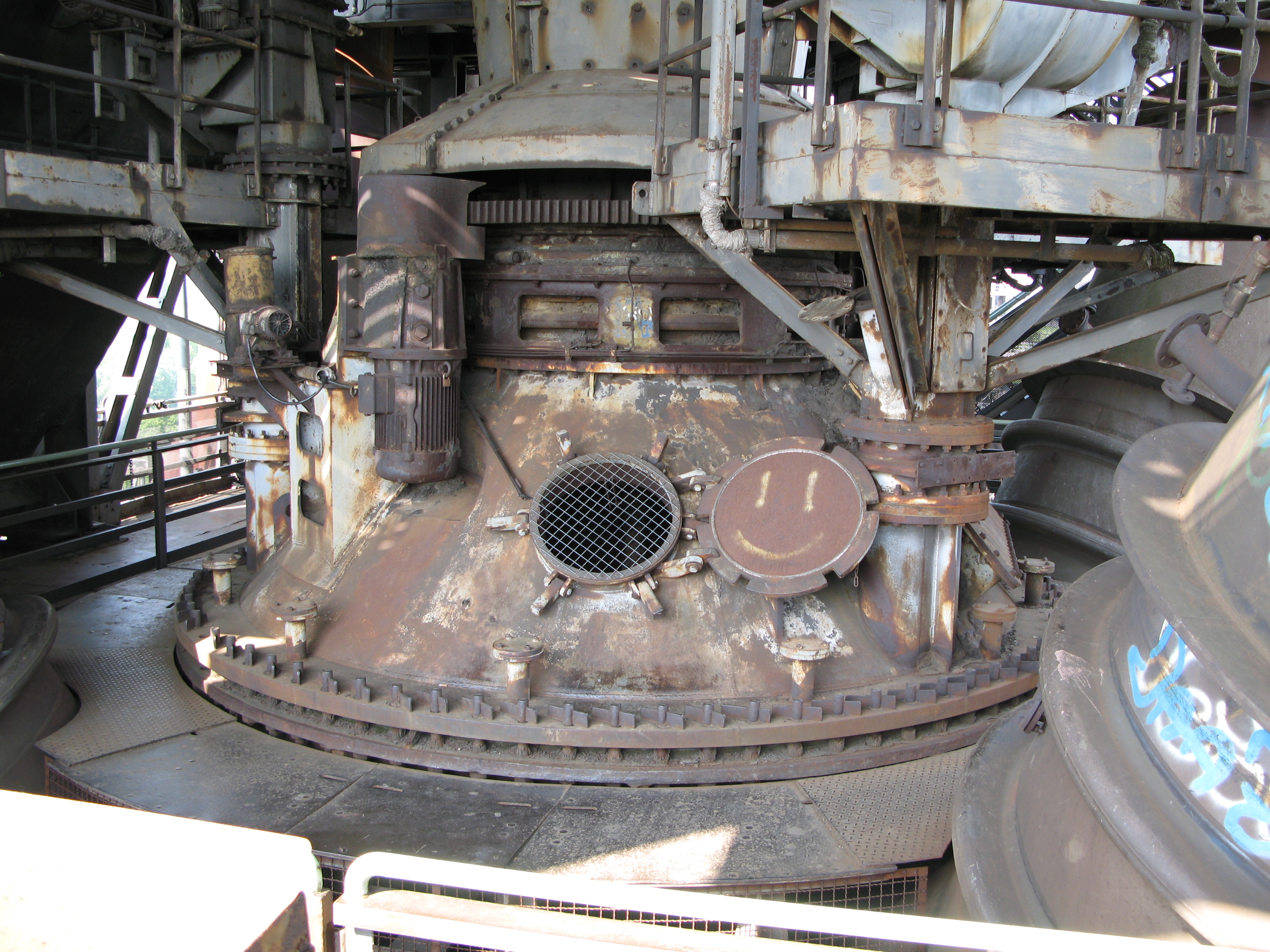 Landschaftspark Duisburg-Nord - charging system with open porthole